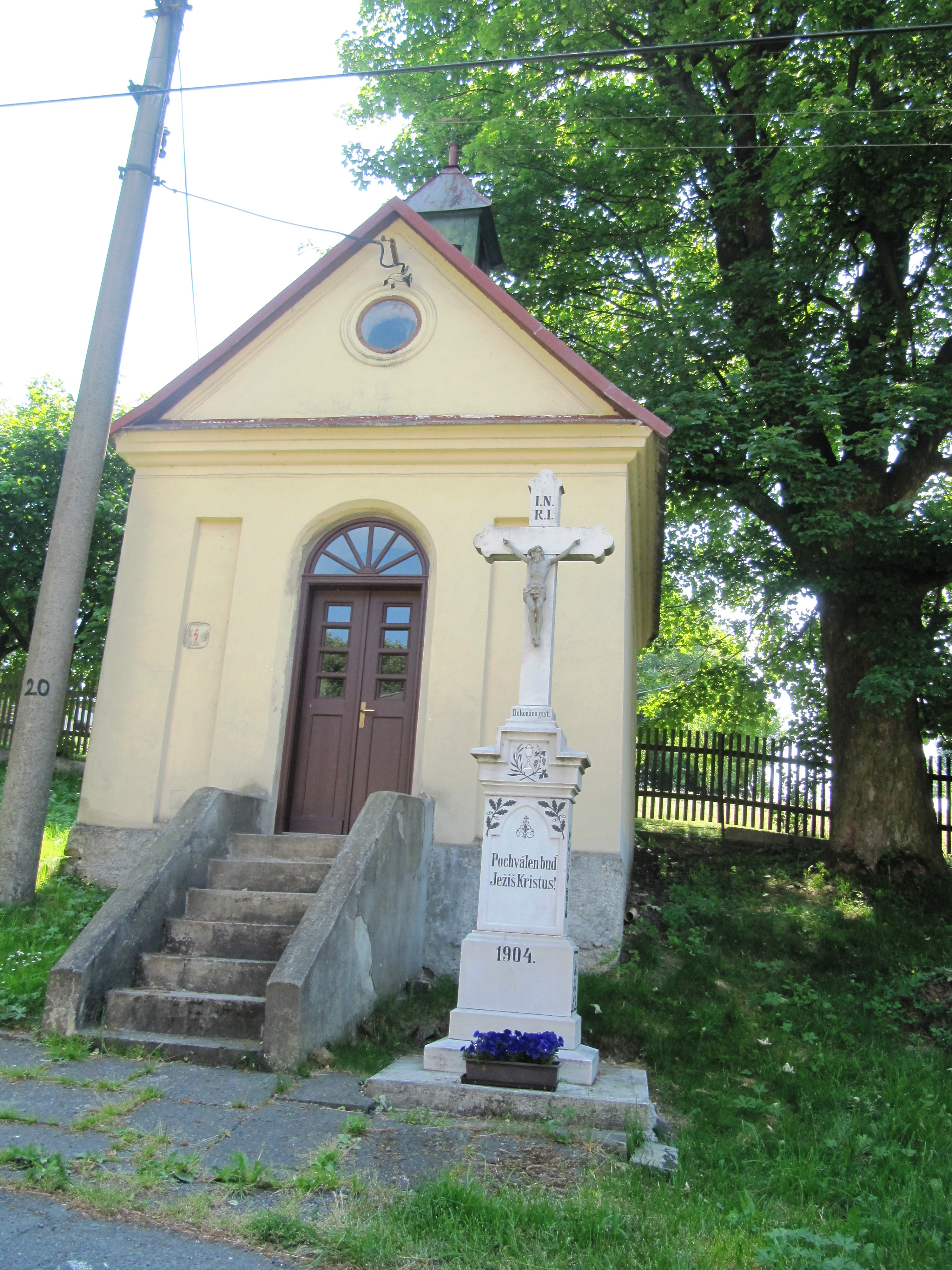 Březová, Opava District, Czech Republic, part Leskovec.